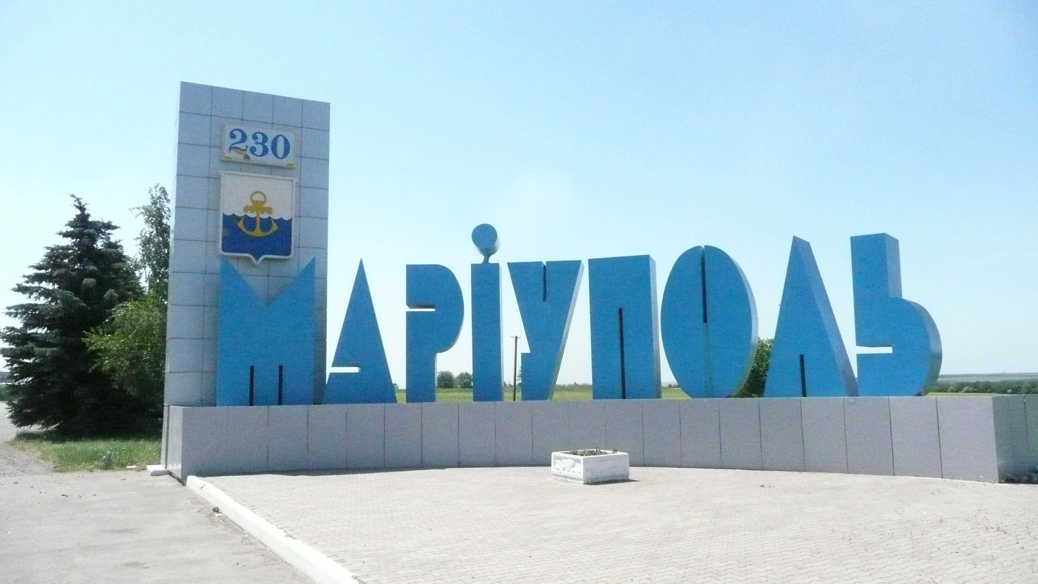 Welcome at Mariupol, entrance of the Mariupol region